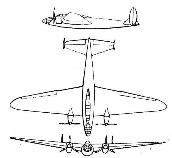 Amiot 356 3-view drawing from L'Aerophile December 1942